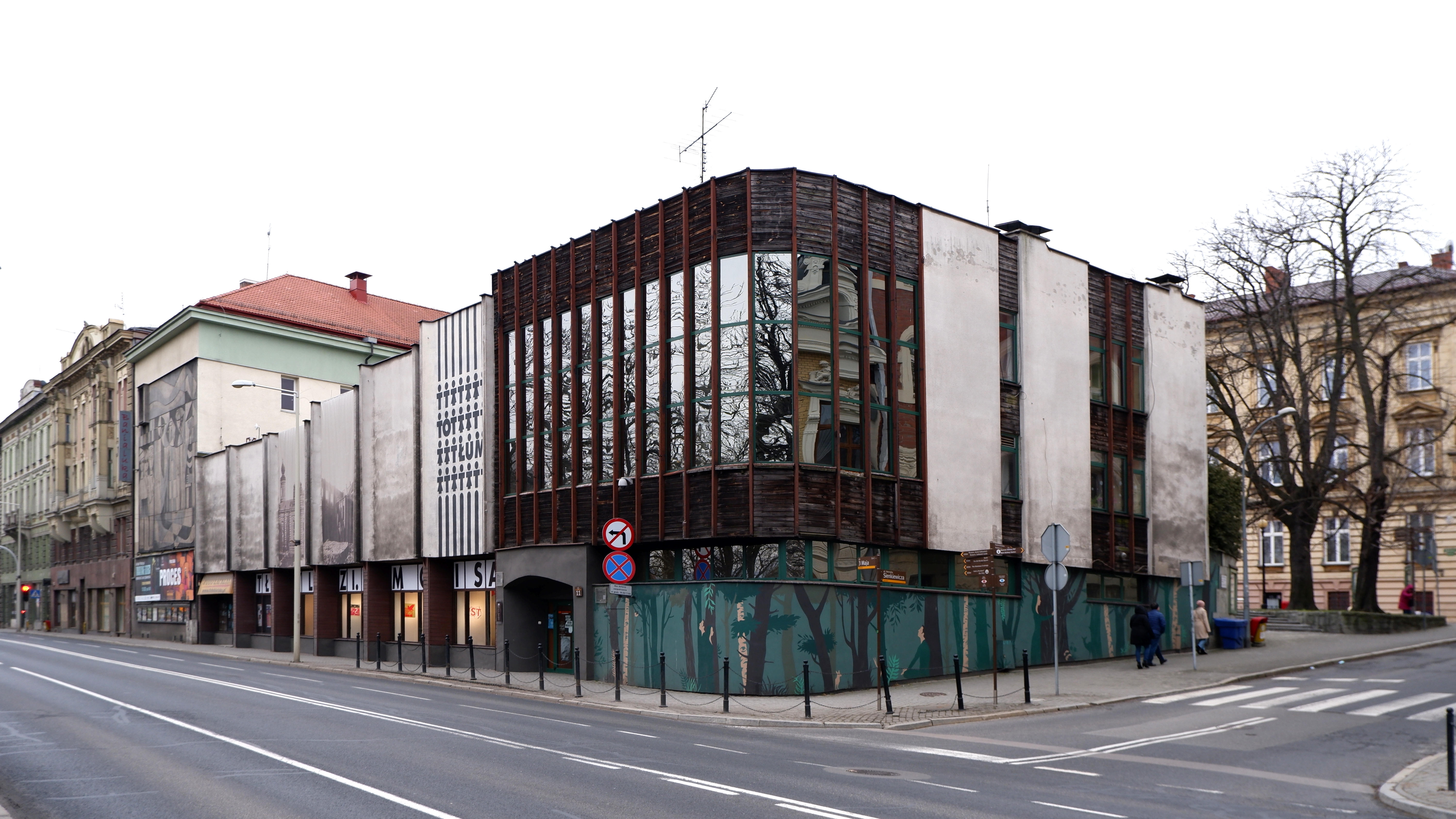 Bielsko-Biała. Building of Galeria Bielska BWA. View from 3rd May street.